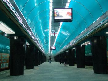 renewed Tsereteli M Station Tbilisi 06 - part of the tbilisi metro 2006 renovation process